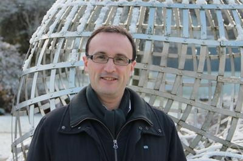 Eric Cancès, Oberwolfach 2013